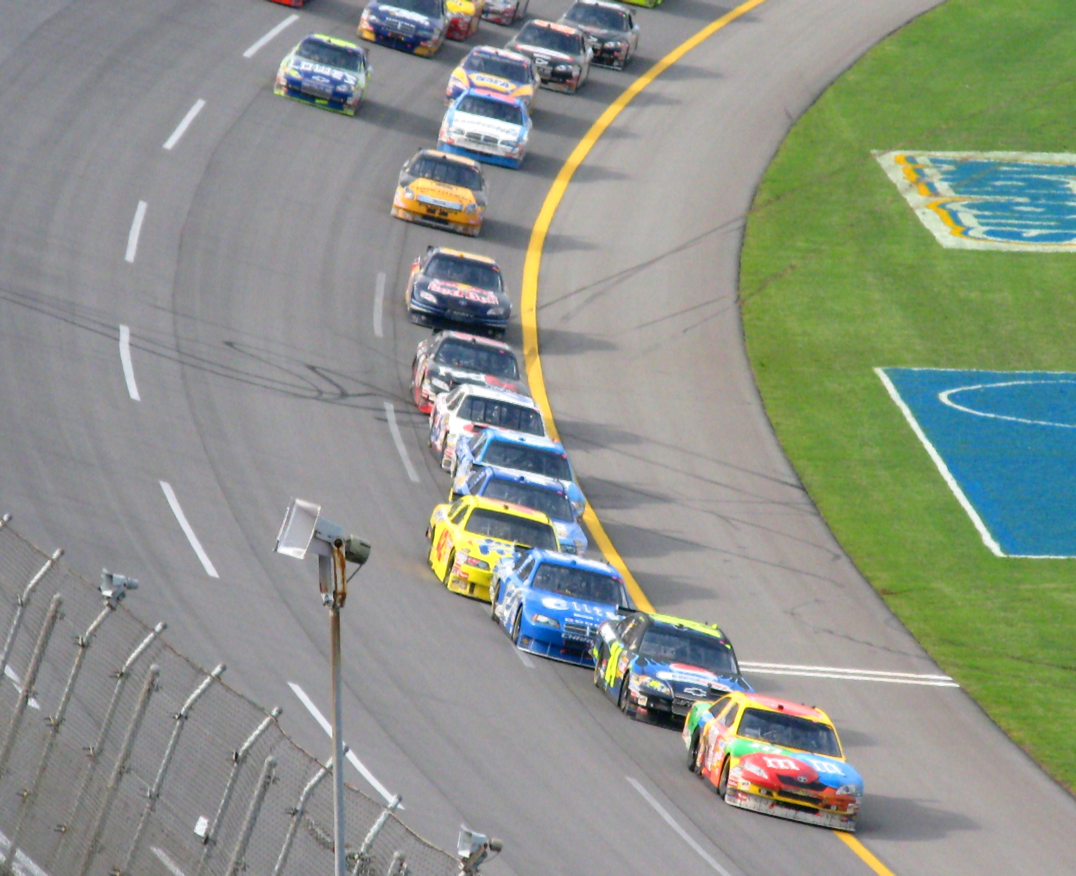 2008 Aaron's 499 at Talladega Superspeedway